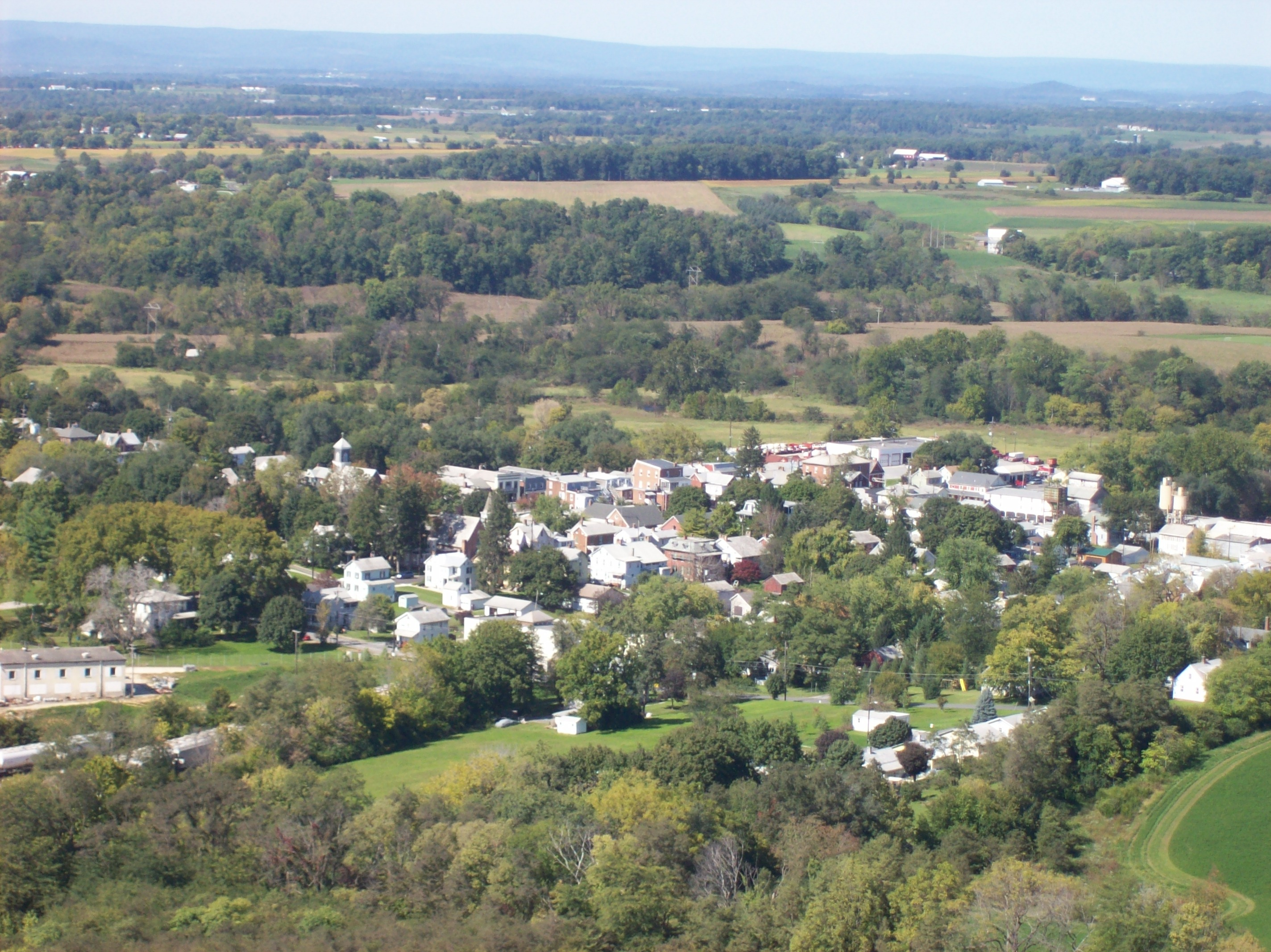 A picture of Union Bridge, Maryland taken from the top of the Lehigh Cement plant next to the town.